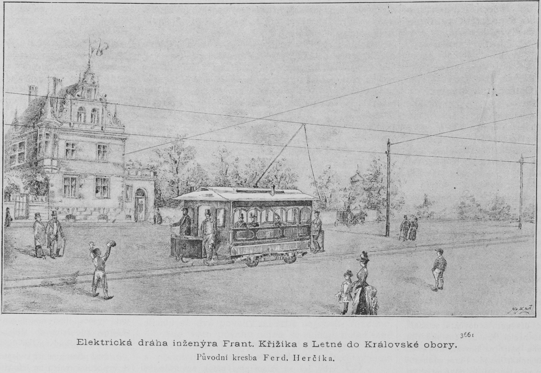 Electric tram on Letná built by František Křižík, Czech electrical engineer. It was the first electric streetcar route in Prague (all previous were horse-powered). Its purpose was to carry visitors to a major exhibition and to promote the use of electric power. The picture only shows the design; the construction and operation only started in 1891.